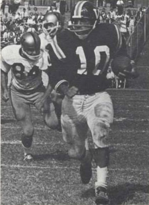 Frank Loria returns a punt 65 yards for a touchdown in a 21-6 win over the Vanderbilt Commodores.